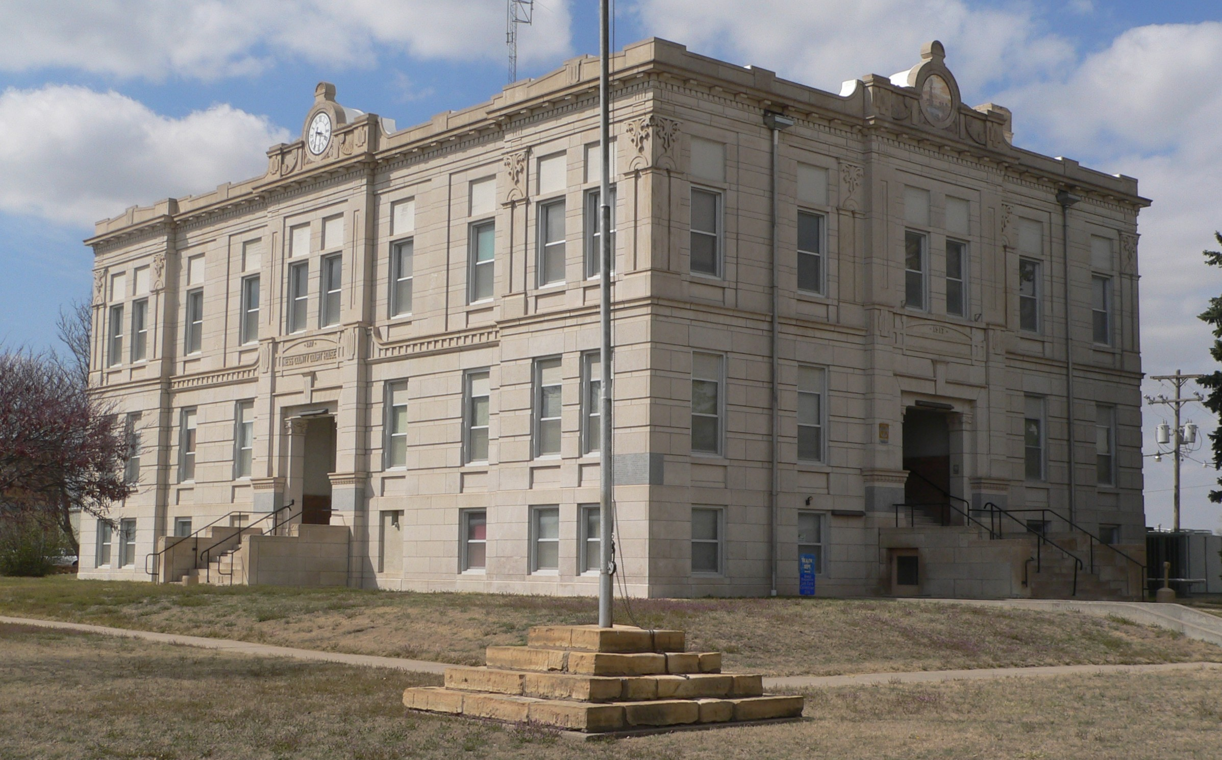 Ness County courthouse, in Ness City, Kansas; seen from the southeast.